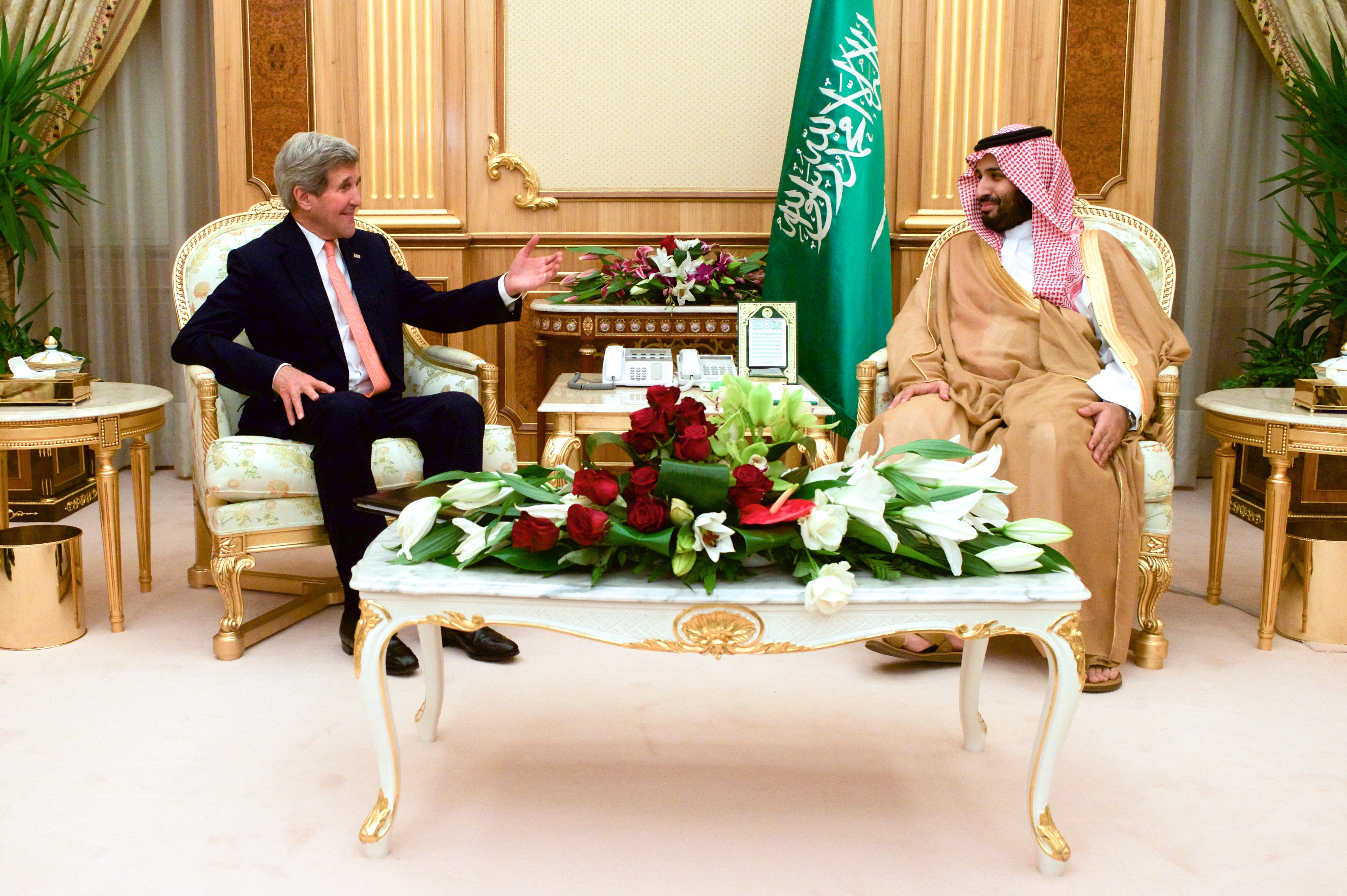 U.S. Secretary of State John Kerry sits with Prince Mohammed bin Salman, Saudi Arabia's newly appointed Minister of Defense, after meeting with King Salman bin Abdelaziz Al Saud of Saudi at the Royal Court in Riyadh, Saudi Arabia, on May 7, 2015. [State Department photo/ Public Domain]